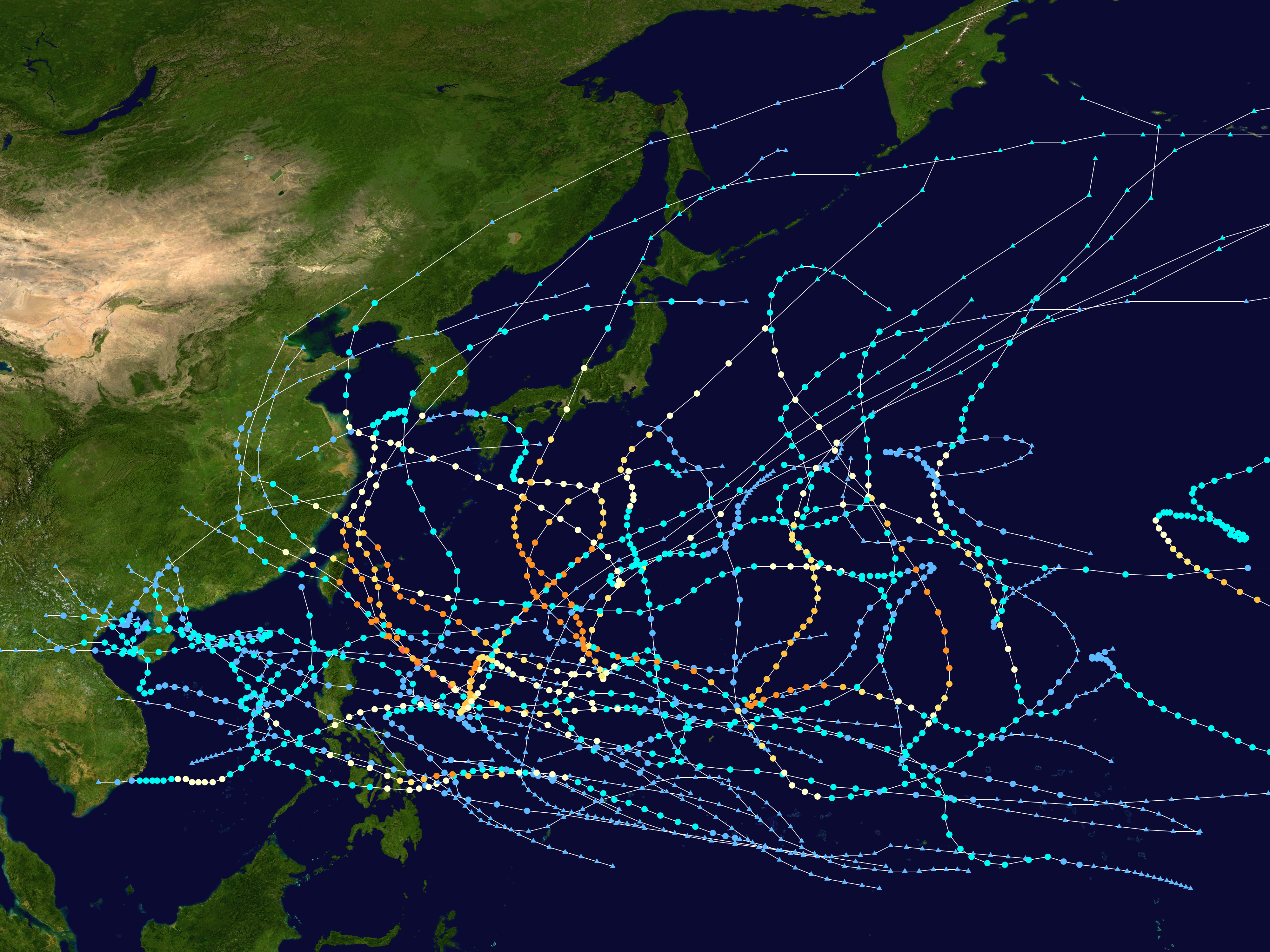 This map shows the tracks of all tropical cyclones in the 1994 Pacific typhoon season. The points show the location of each storm at 6-hour intervals. The colour represents the storm's maximum sustained wind speeds as classified in the Saffir-Simpson Hurricane Scale (see below), and the shape of the data points represent the type of the storm. Saffir–Simpson scale Tropical depression≤38 mph≤62 km/h Category 3111–129 mph178–208 km/h Tropical storm39–73 mph63–118 km/h Category 4130–156 mph209–251 km/h Category 174–95 mph119–153 km/h Category 5≥157 mph≥252 km/h Category 296–110 mph154–177 km/h Unknown Storm type Tropical cyclone Subtropical cyclone Extratropical cyclone / Remnant low / Tropical disturbance / Monsoon depression